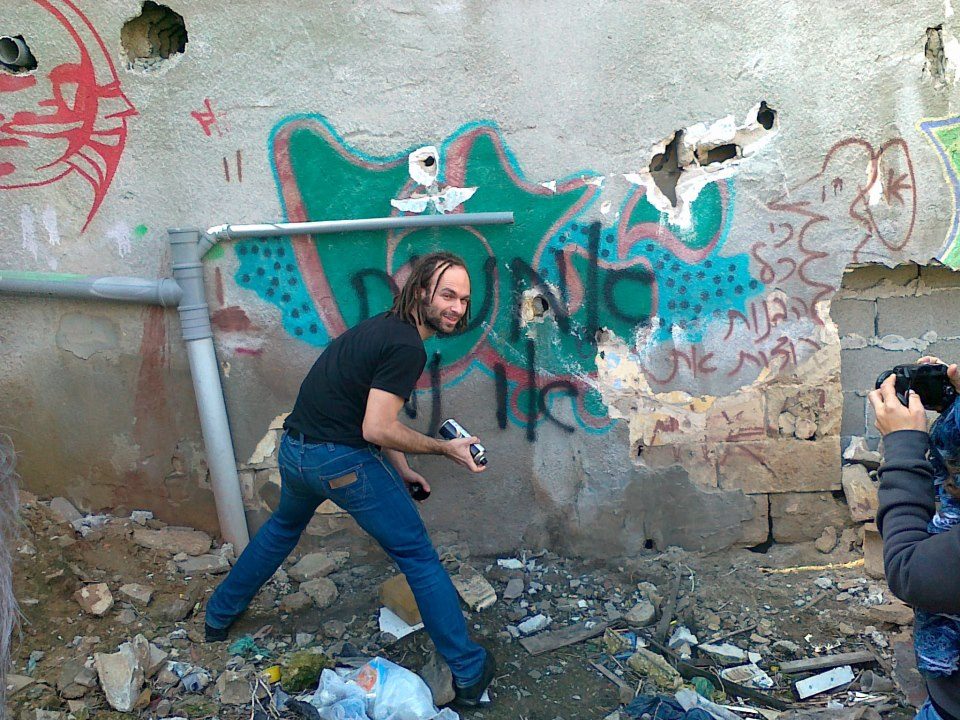 Graffiti in Florentin, Tel Aviv, by artist Jonathan Kis-Lev